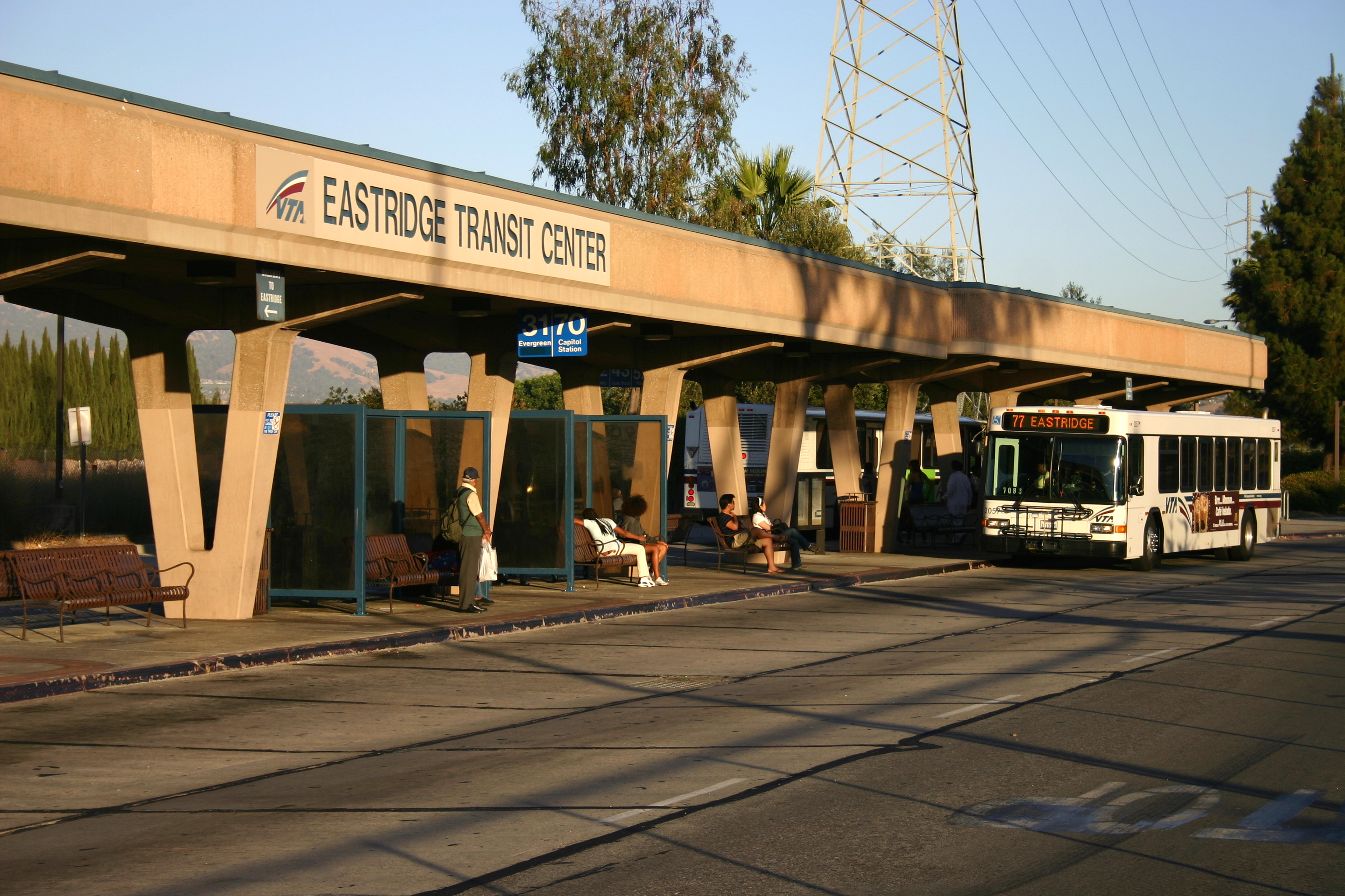 Eastridge Transit Center in San Jose, California near sunset